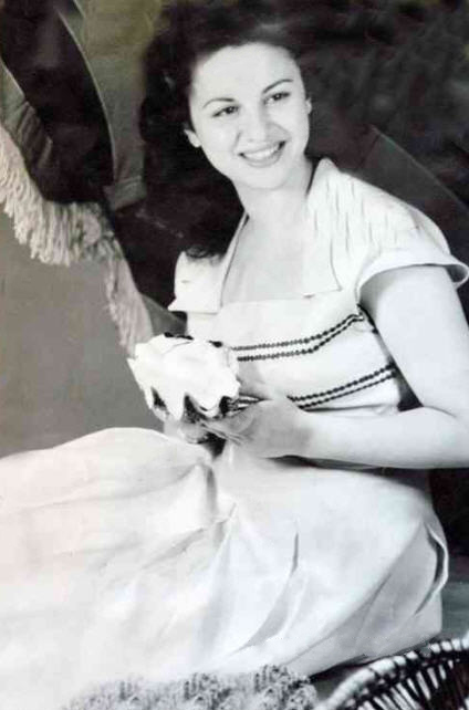 picture for Faten Hamama, (born 1931) an Egyptian producer and an acclaimed actress of film, television, and theatre .